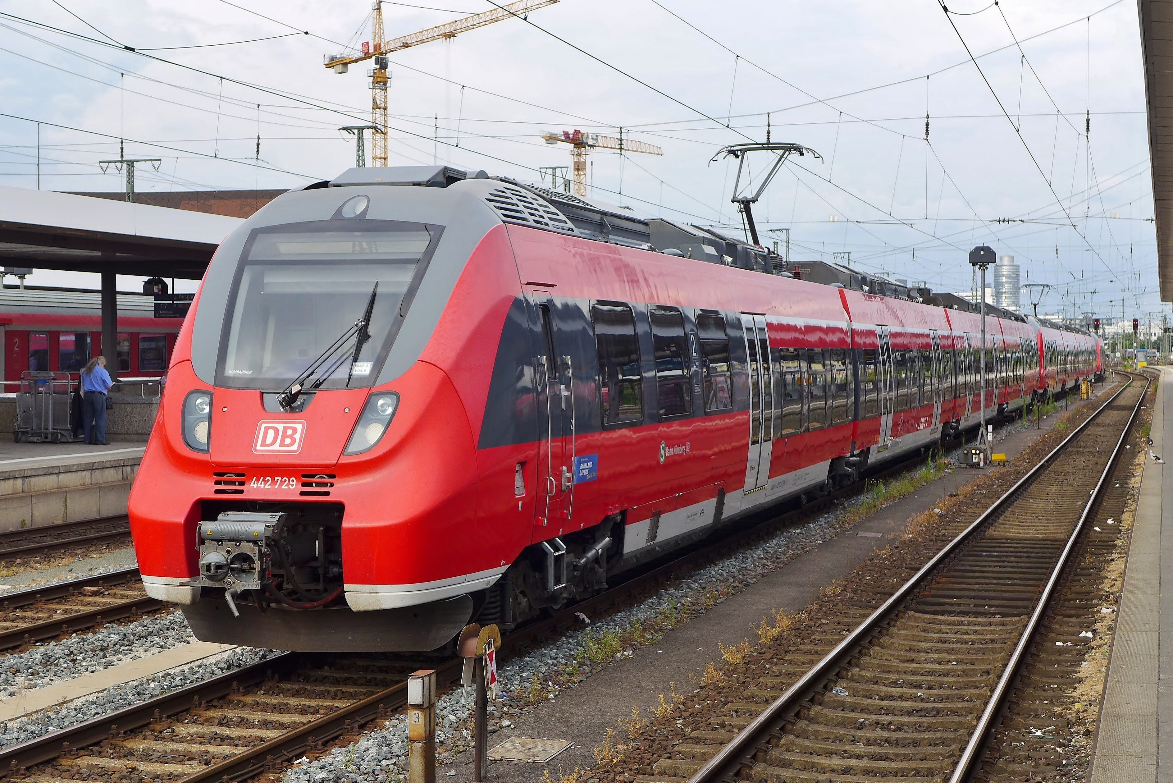 DBAG Class 442 electric multiple unit train no. 442 729 at Nürnberg Hauptbahnhof.